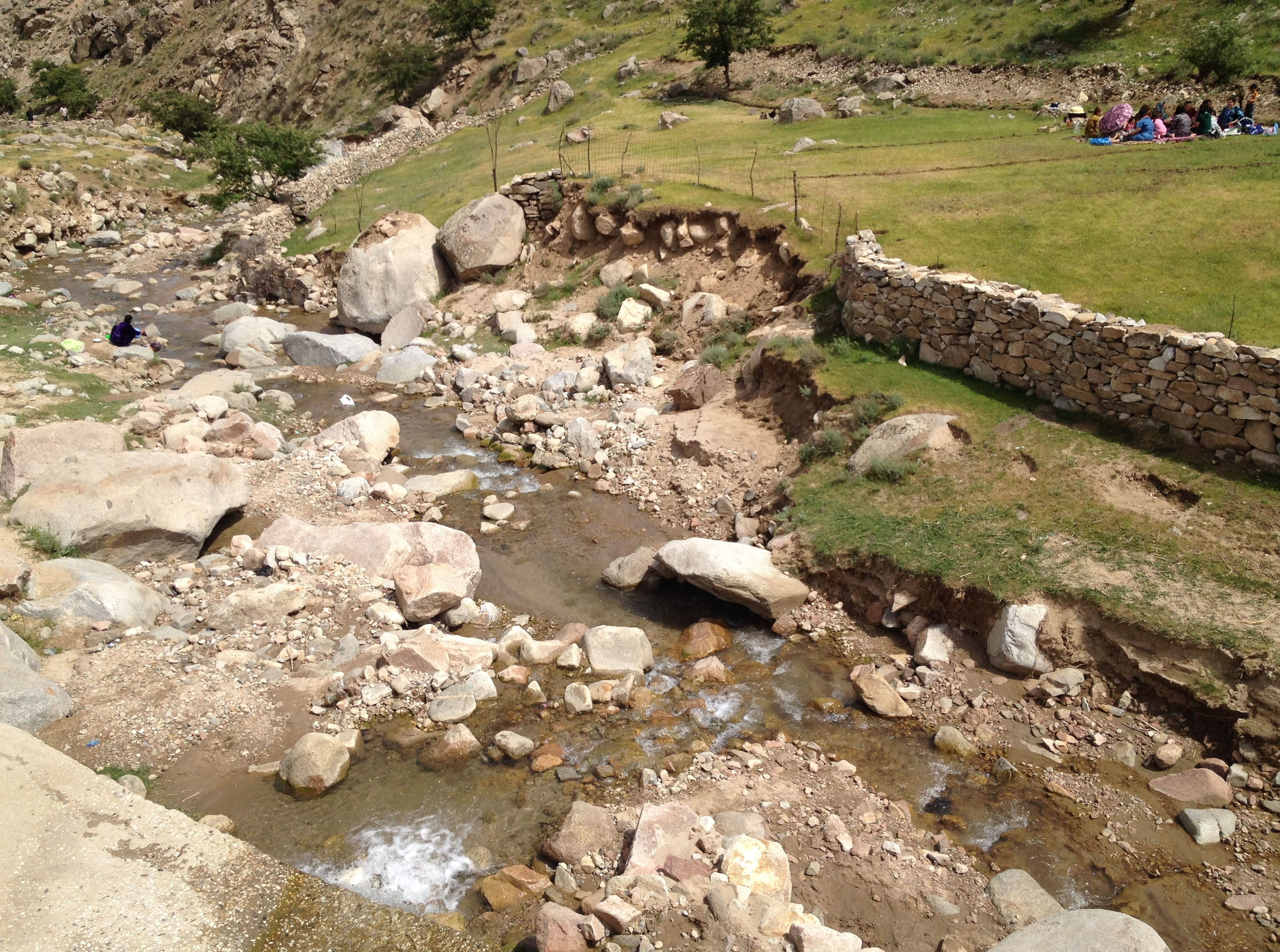 Confluence of Jiltema Say (on the right) and Kirich Say tributary (on the left)